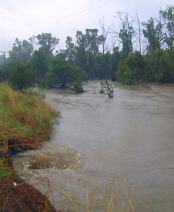 The usually tiny Sleeman Creek, Mount Barker, Western Australia, in full flood, April 1st, 2005.